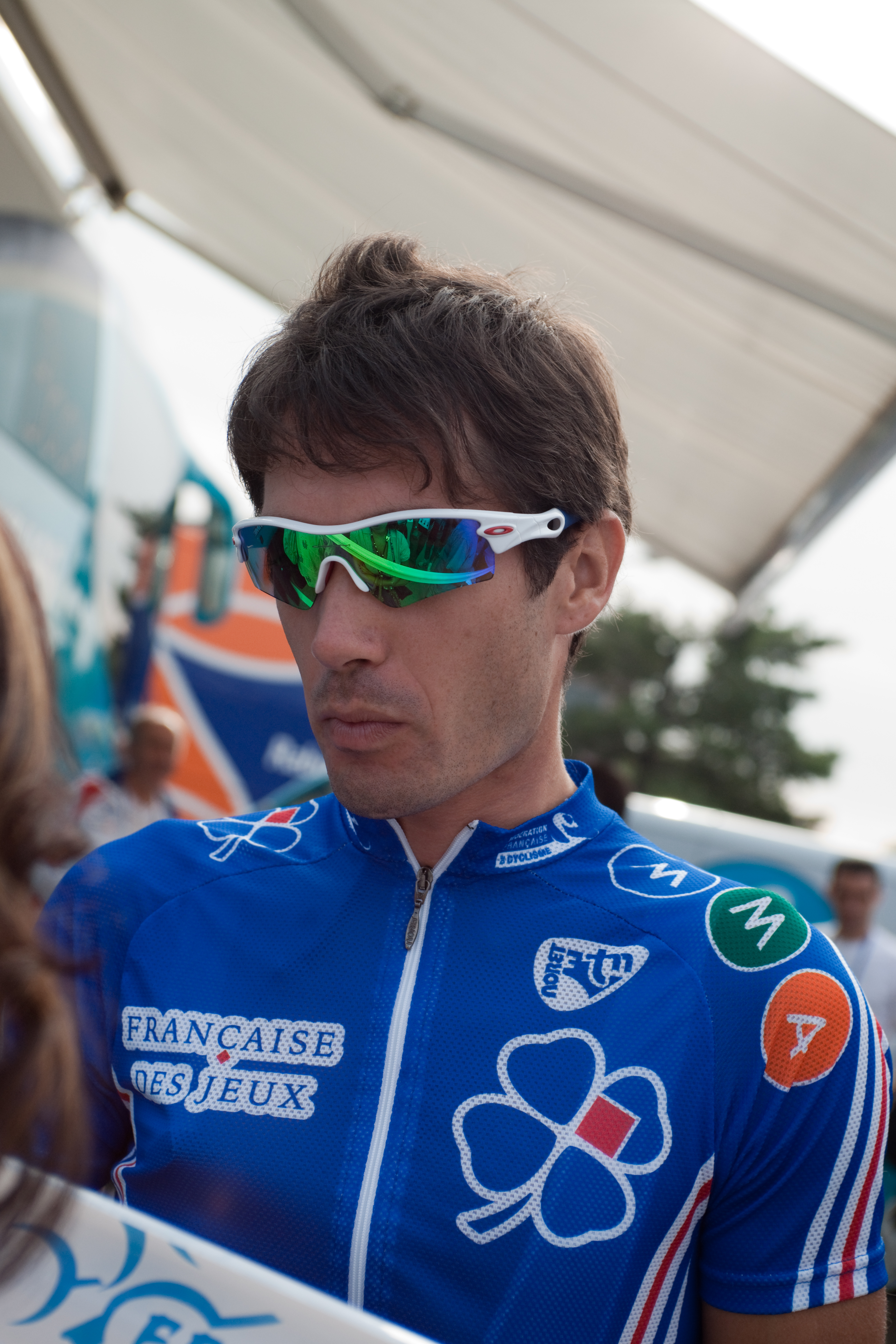 Christophe Le Mevel during the 2009 Road World Championships in Mendrisio, Switzerland.